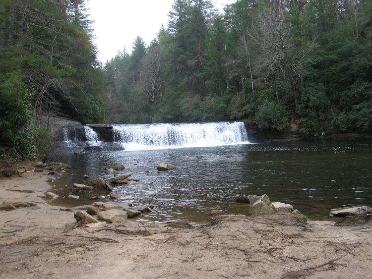 Hooker Falls on the Little River at DuPont State Forest, taken by uploader, August 2006.